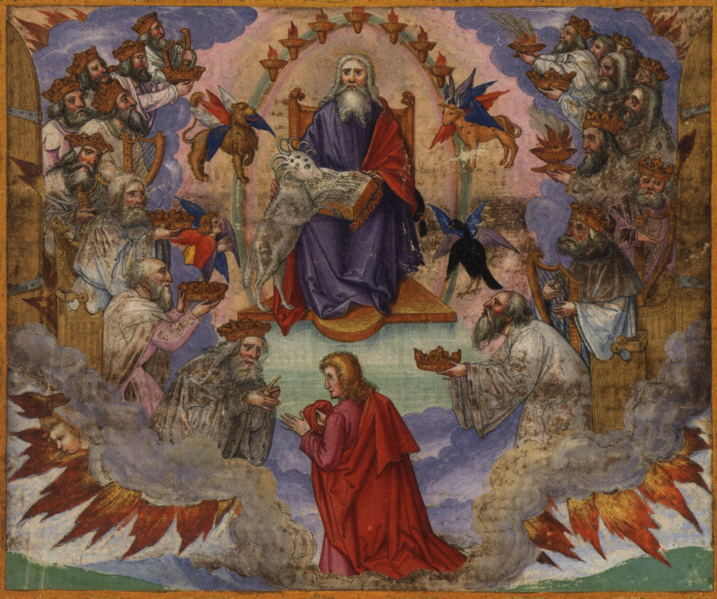 Page 287r: John's Vision of Heaven, Revelation 4:1-11, 5:1-14